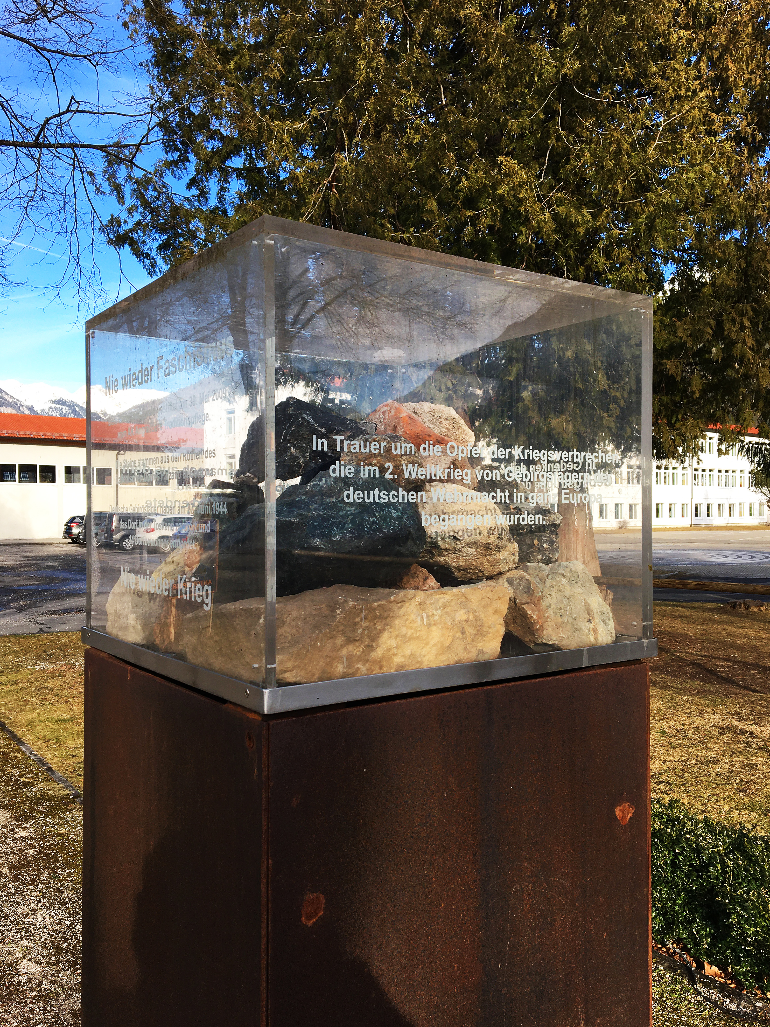 Memorial against war and fascism in Mittenwald. Stele made of concrete, steal and glass donated by the group 'AK Angreifbare Traditionspflege' on May 30, 2009. The stones inside come from the ruins of the italian village Falzano di Cortona symbolizing the 14 inhabitants massacred by German mountain infantry (Gebirgsjäger) under the command of Josef Scheungraber there on June 27, 1944.